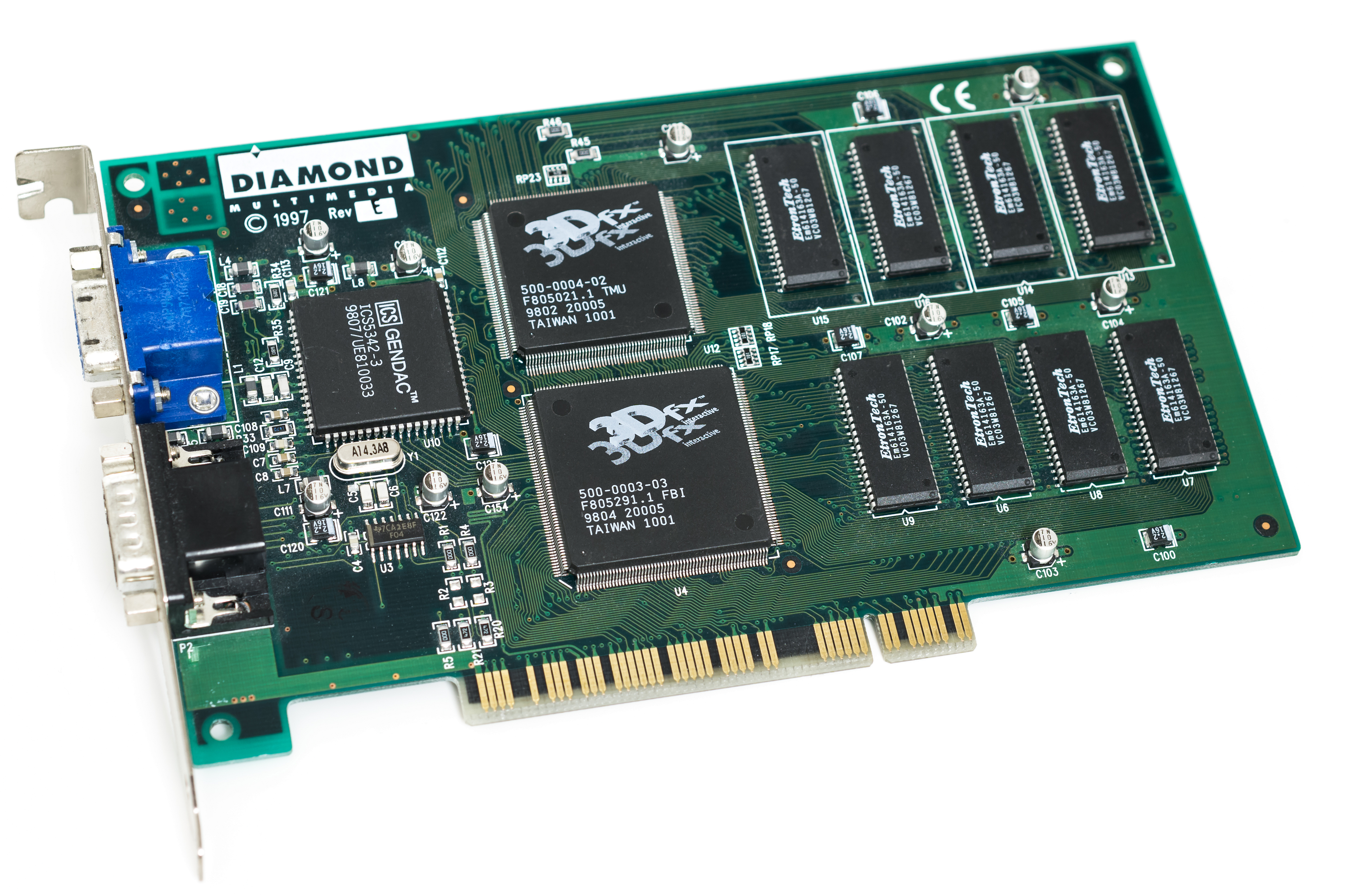 3Dfx Voodoo Graphics